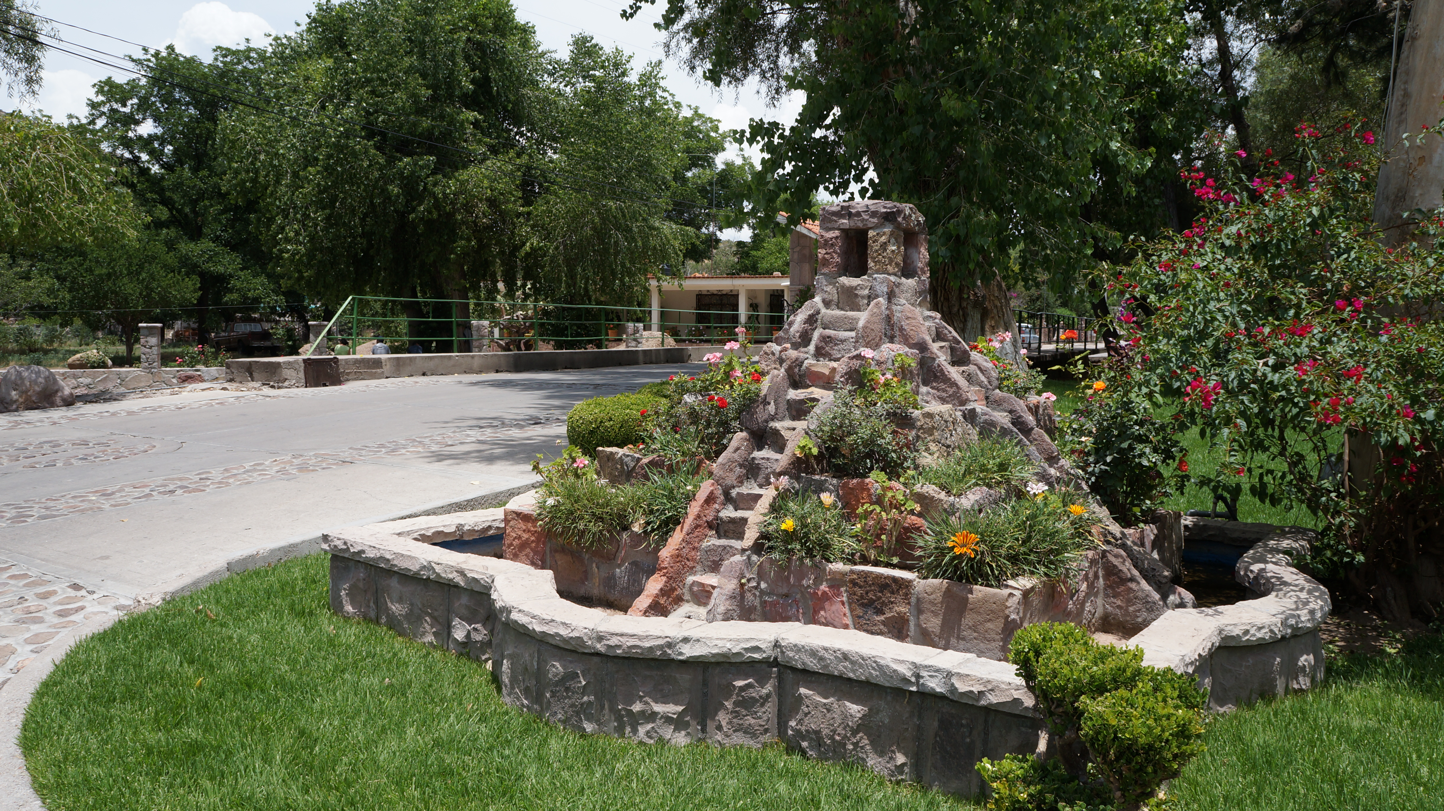 Susticacan street